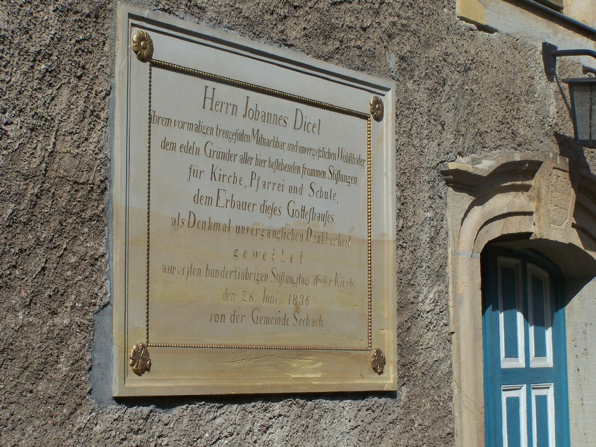 A plate at the church to honore the benefactor Johannes Dicel.